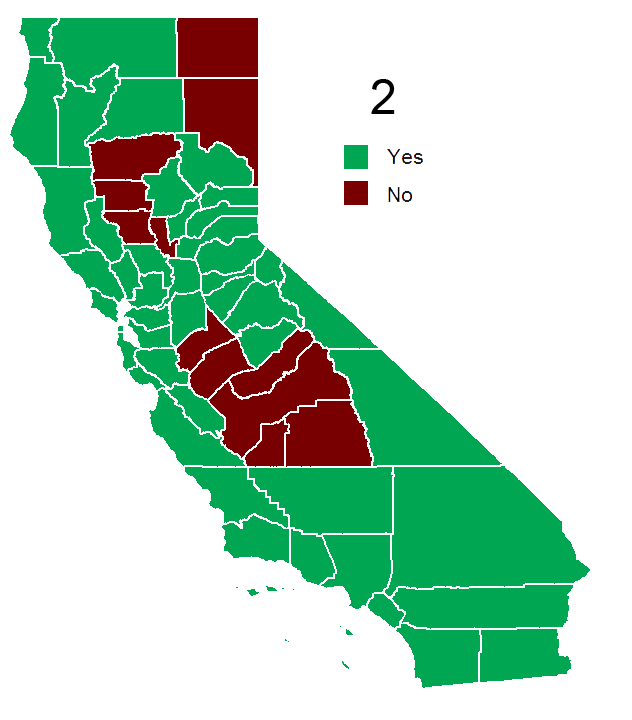 Electoral results by county.